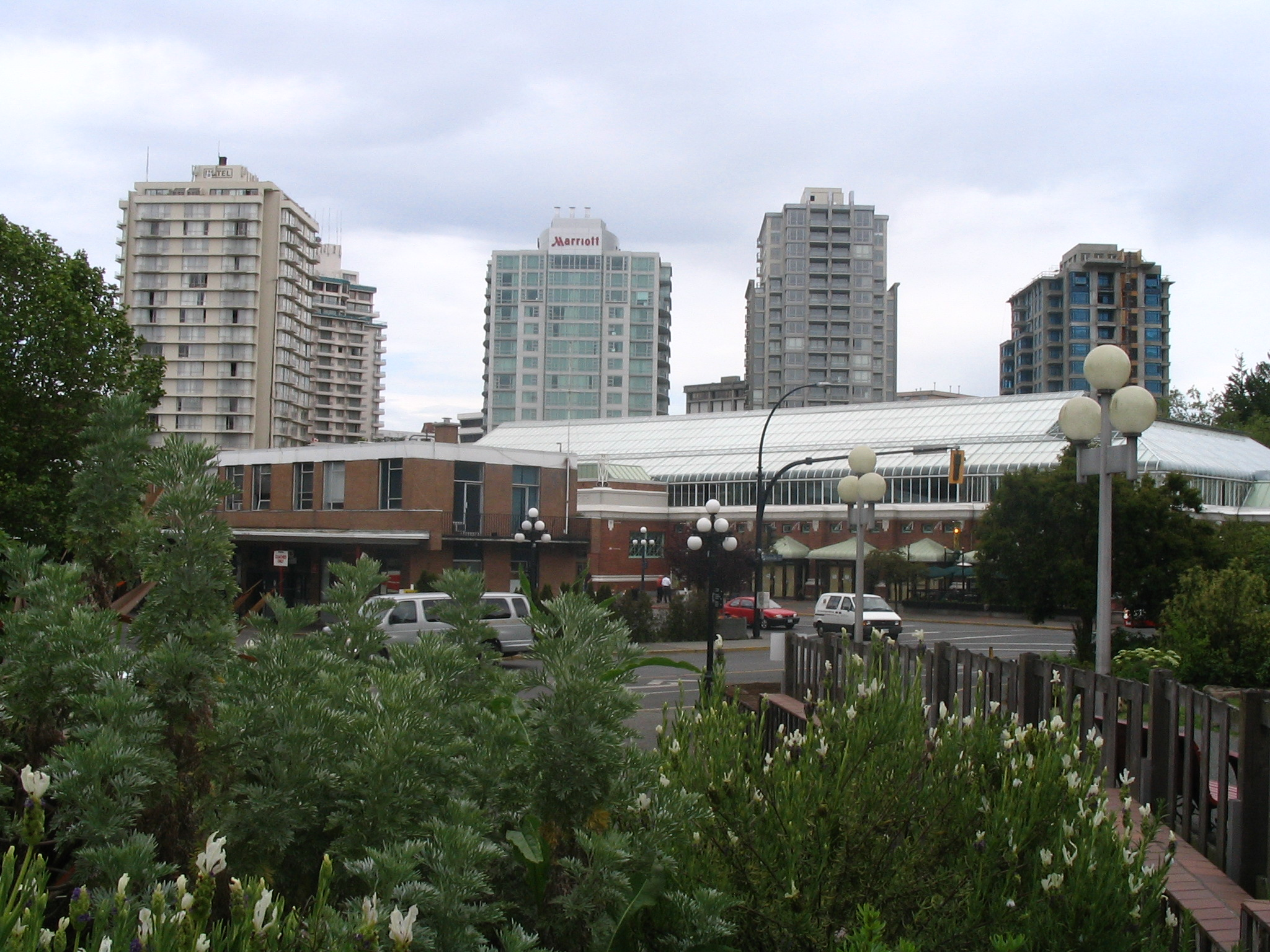 buildings in downtown Victoria's "Humboldt Valley". Victoria, British Columbia